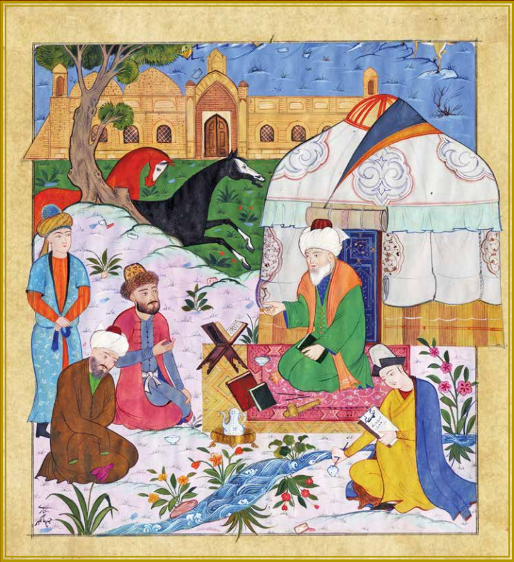 An illustration of Ahmad Yasawi by Ahmet Yesevi University